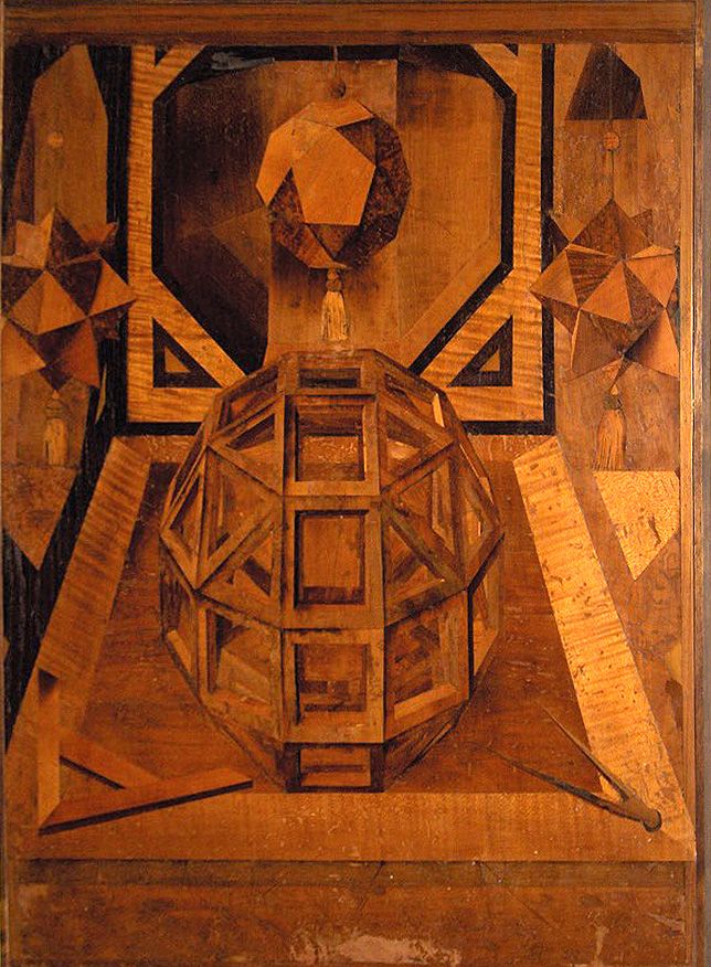 Geometric figure (first half of 1500's), intarsia by fra Damiano Zambelli da Bergamo (1480-1549); Museum of the basilica of Saint Dominic, Bologna, Italy